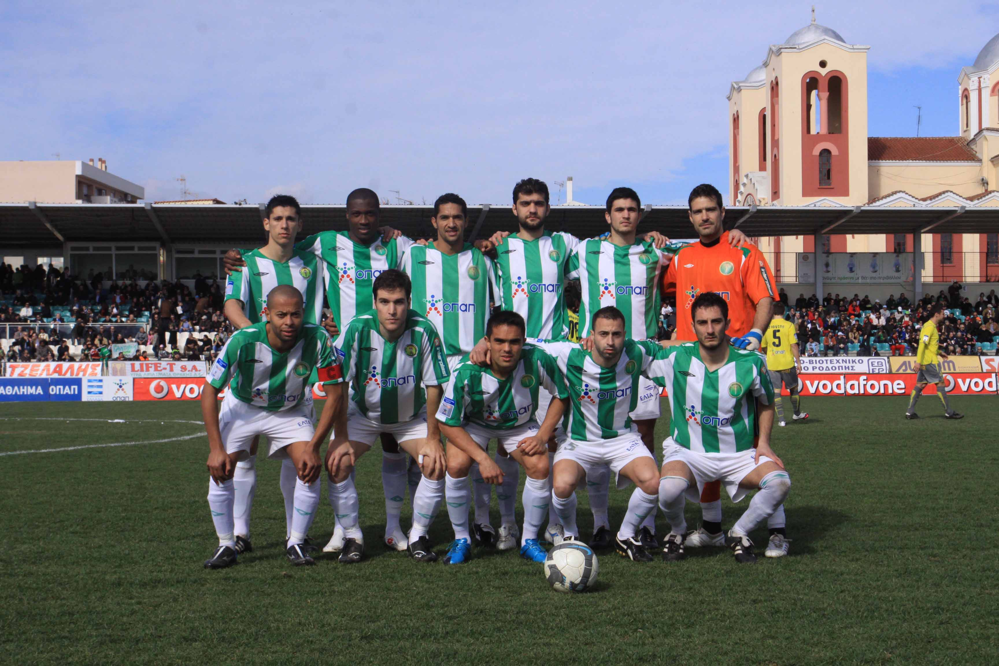 Panthrakikos F.C., 2010 standing from left: Anestis Argiriou, Steve Beleck, Marcelo Goianira, Kostas Iasonidis, Spyros Matentzidis, Jose Manuel Roca. sitting from left: Manuel Lopes, Vlasis Kazakis, Bertrand Robert, Fotis Papoulis, Thodoris Papadopoulos.